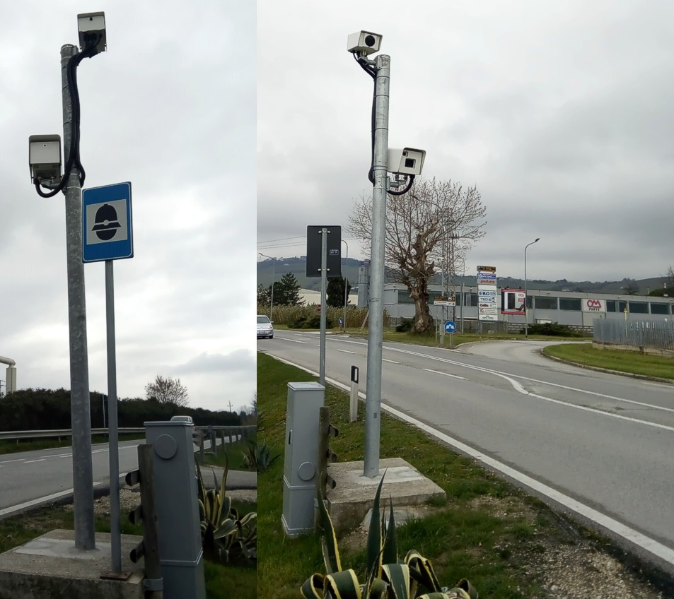 Room for speed control in both directions.